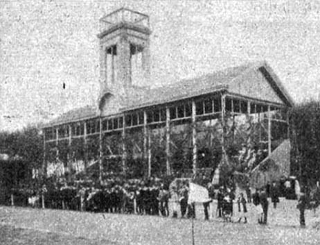 The Estadio GEBA during its inauguration.